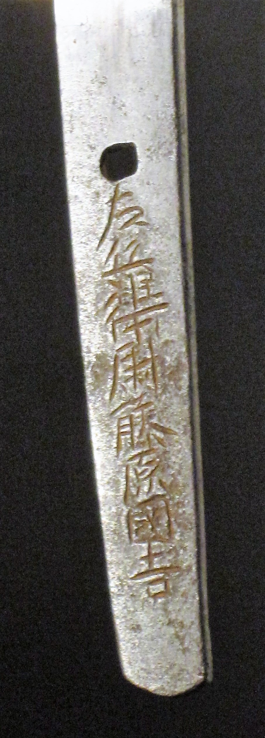 A nakago of katana titiled "Nakigitsune" (鳴狐, Important Cultural Property) with a signature "Sahyoe no jo Fujiwara no Kuniyoshi" (左兵衛尉藤原国吉), the collection of Tokyo National Museum.